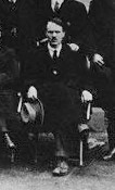 The Sinn Fein members elected in the December 1918 election at the first Dail Eireann meeting, called by Sinn Fein on January 21, 1919. Shown are (from l to r): 1st row: L. Ginell, Michael Collins (leader of the Irish Republican Army), Cathal Brugha, Arthur Griffiths (founder of Sinn Fein), Eamon de Valera (president of the Irish Republic), Count E. MacNeill, William Cosgrave and E. Blythe; 2nd row: P. Maloney, Terence McSwiney (Lord Mayor of Dublin), Richard Mulcahy, J. O'Doherty, J. O'Mahony, J. Dolan, J. McGuinness, P. O'Keefe, Michael Staines, McGrath, Dr. B. Cussack, L. de Roiste, W. Colivet and the Reverend Father Michael O'Flanagan (vice-president of Sinn Fein); 3rd row: P. War, A. McCabe, D. Fitzgerald, J. Sweeney, Dr. Hayes, C. Collins, P. O'Maillie, J. O'Mara, B. O'Higgins, J. Burke and Kevin O'Higgins; 4th row: J. McDonagh and J. McEntee; 5th row: P. B 1919 Ireland